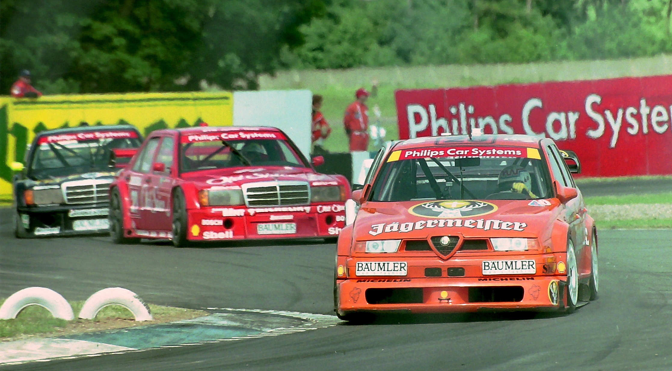 Andy Wallace - Team Jagermeister-Schubel - Alfa Romeo 155 V6 TI 93 German Touring Car Championship - Donington Park July 17 1994